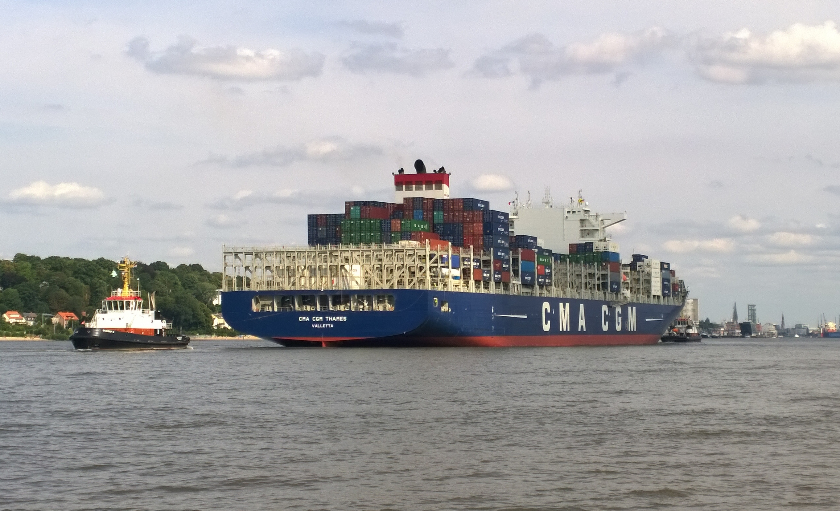 Container ship CMA CGM Thames before the Port of Hamburg in August 2015 - rear view